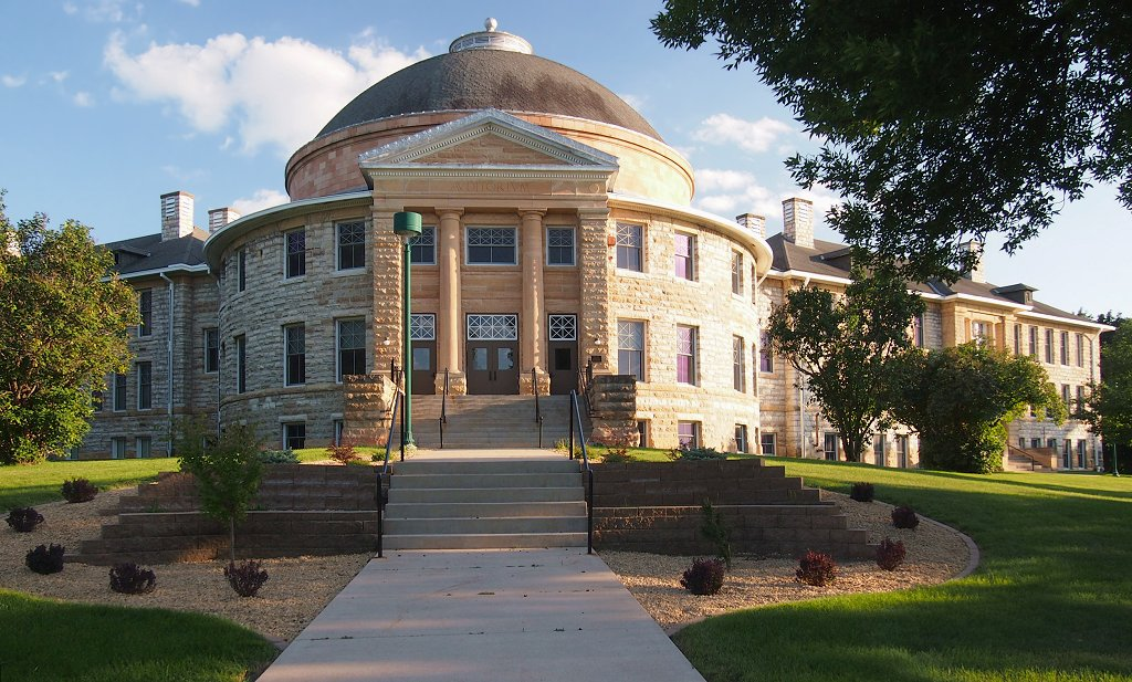 Noyes Hall, Minnesota State Academy for the Deaf, Faribault, Minnesota, USA. Viewed from north near sundown on a summer evening for some light on northern façade.